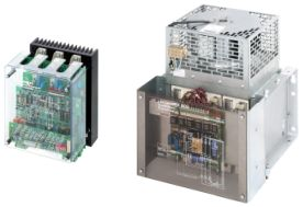 A sample of Motor soft starter